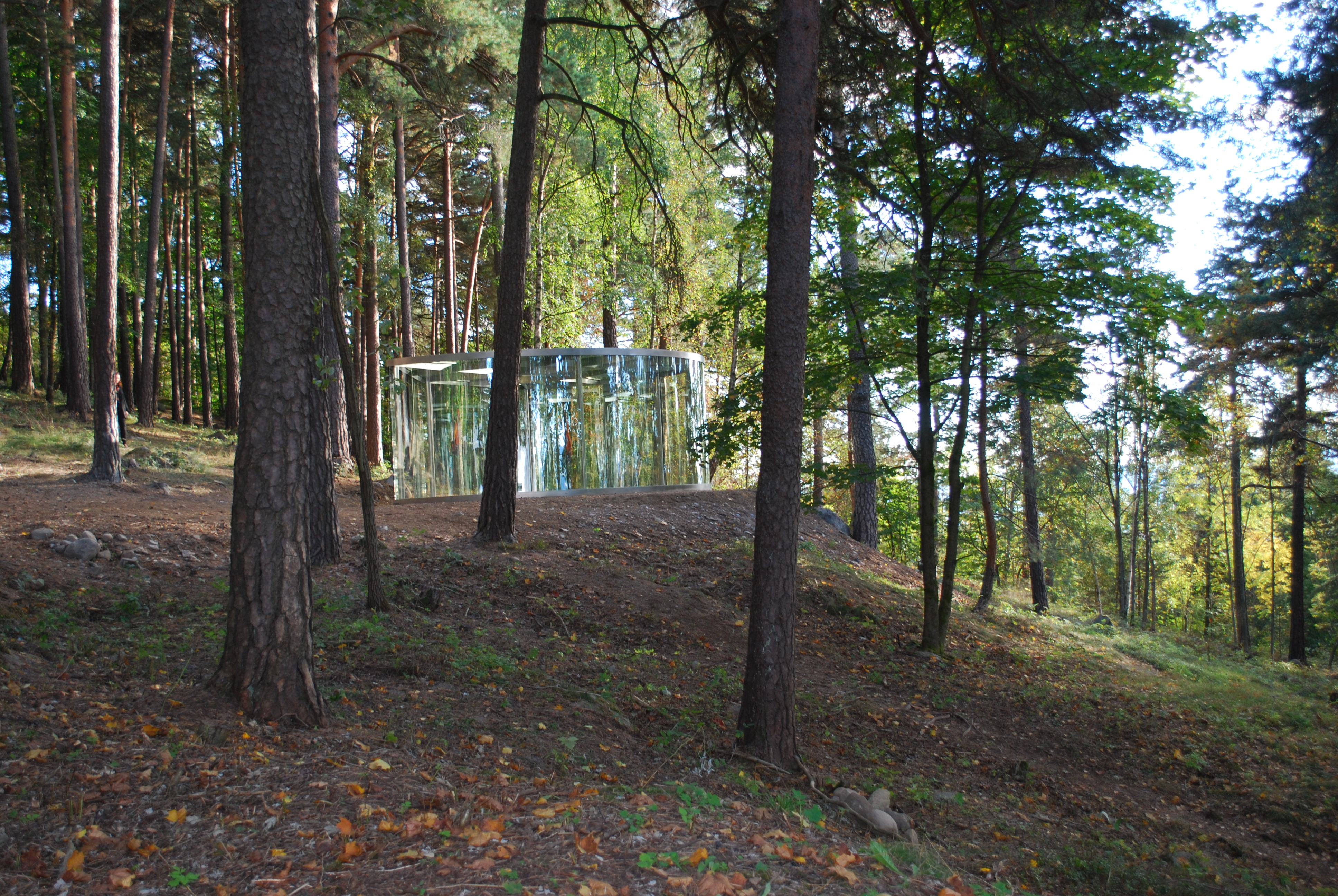 The sculpture park Ekebergparken, Oslo, wood with "Pavillion" by Dan Graham